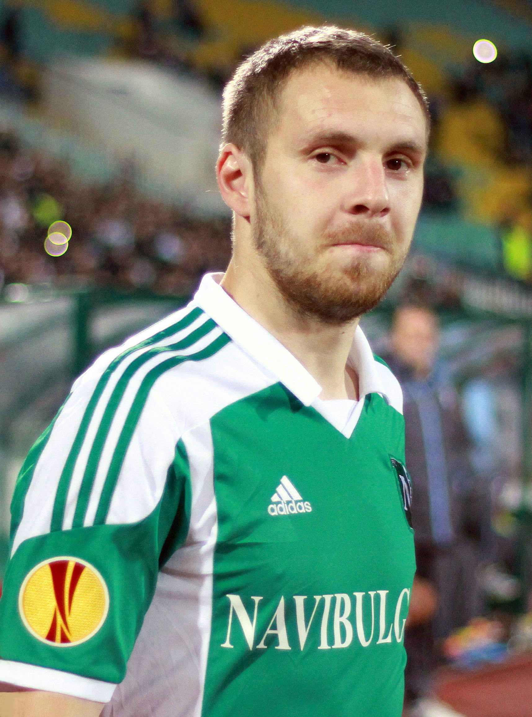 Cosmin Moți (born 3 December 1984 in Reşiţa) is a Romanian football defender who currently plays for Ludogorets Razgrad in the Bulgarian A GroupRomână: Cosmin Iosif Moți (n. 3 decembrie 1984, Reșița) este un un jucător de fotbal român care evoluează la clubul Ludogoreț Razgrad.